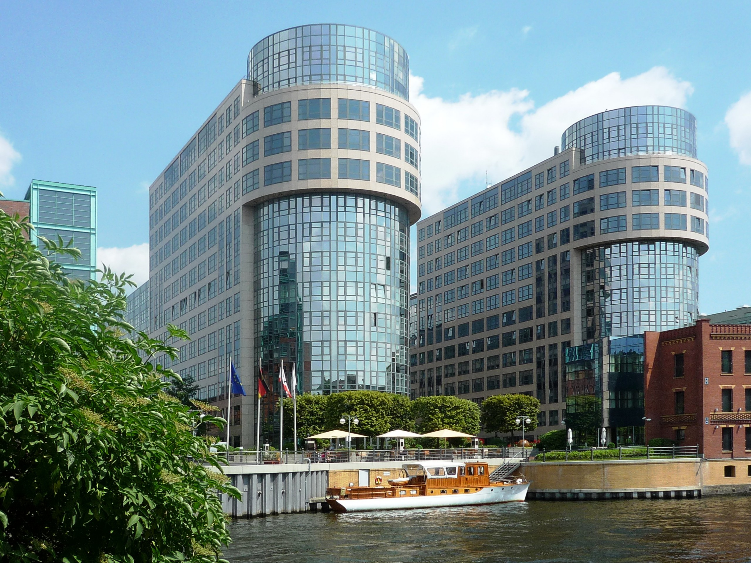 German ministry of the Interior (right wing of the building), located in the so-called Spreebogen in Berlin-Moabit, part of the district Berlin-Mitte.